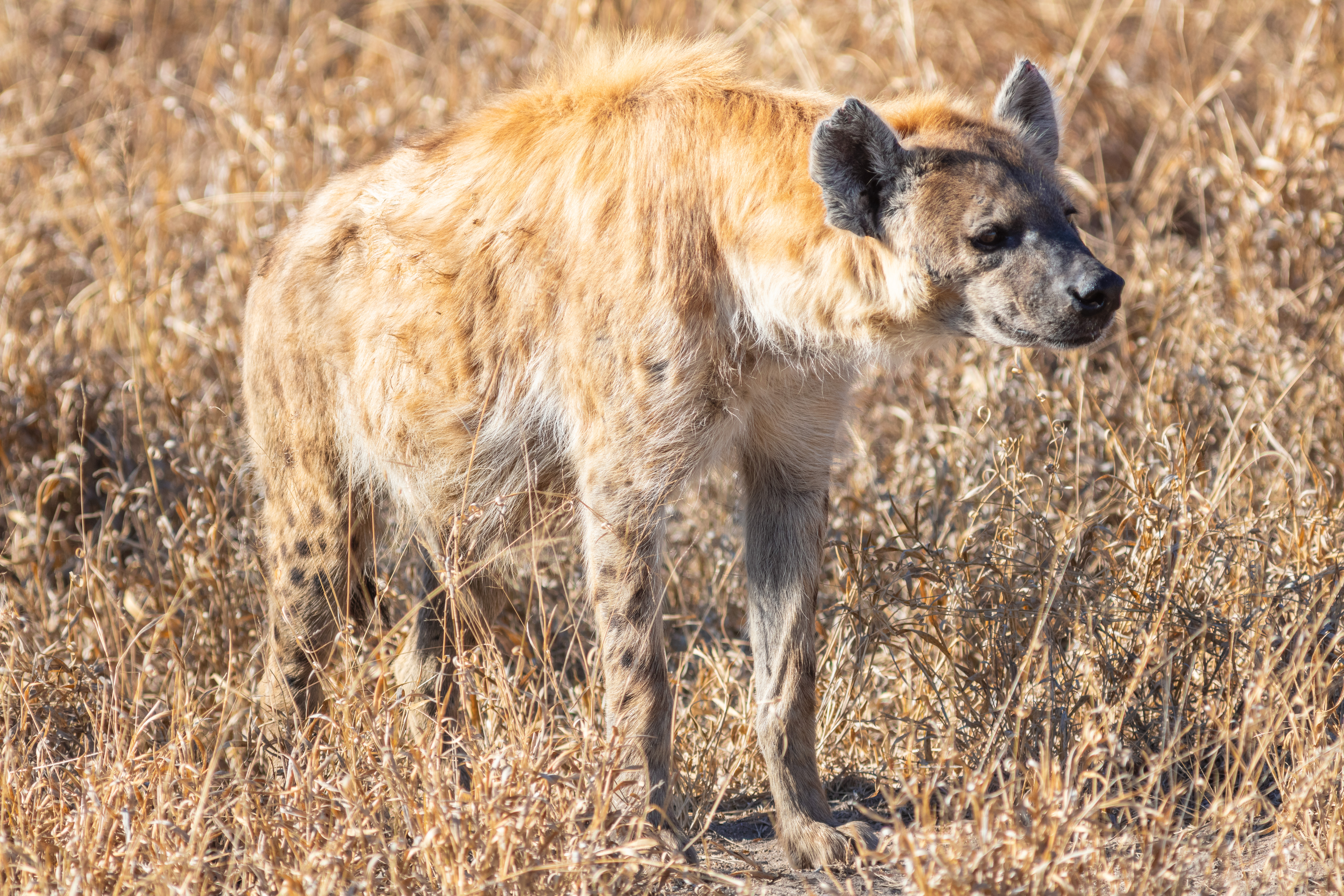 Spotted hyena (Crocuta crocuta), Kruger National Park, South Africa